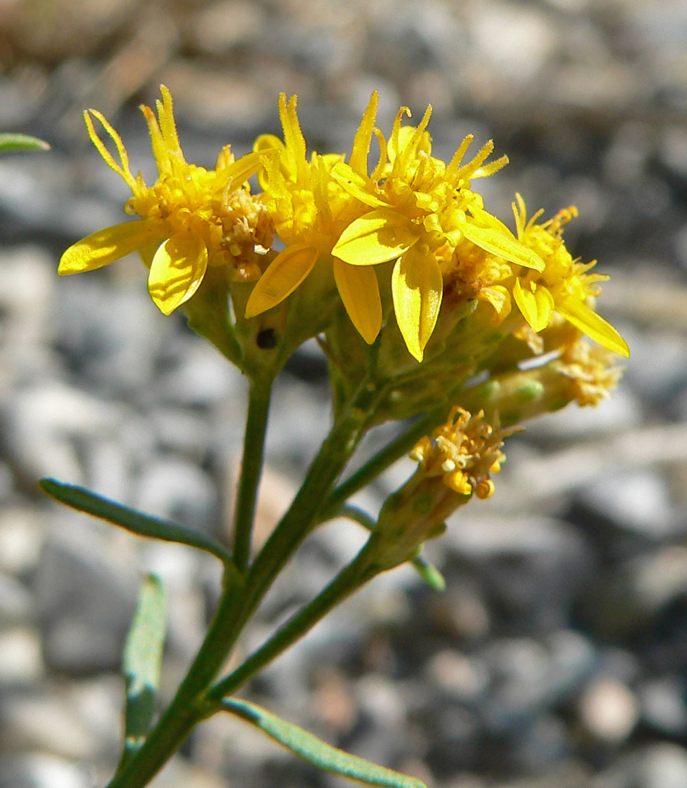 Gutierrezia sarothrae near the junction of 157 and 158, Kyle Canyon, Spring Mountains, southern Nevada (elev. about 2100 m)